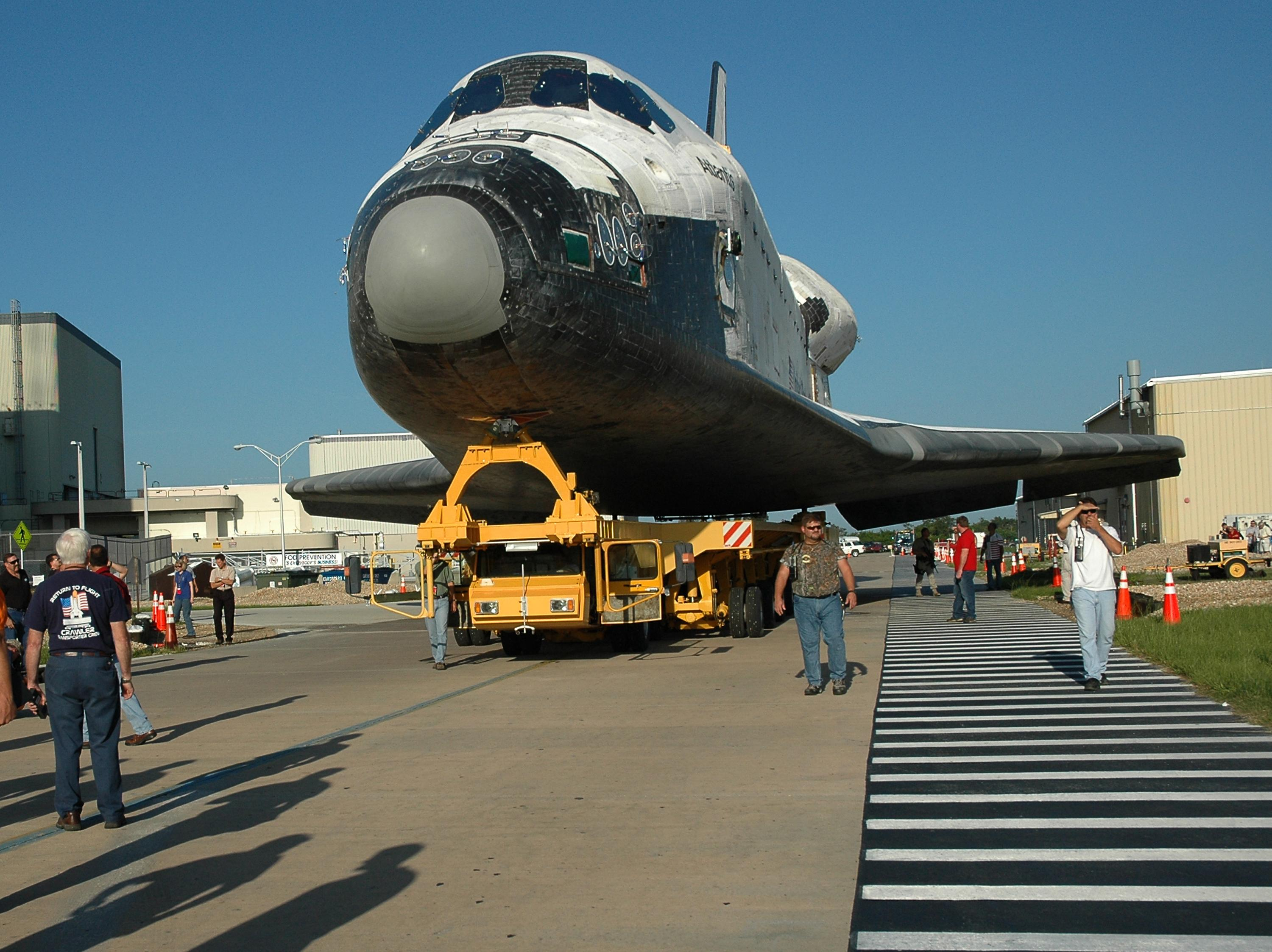 KENNEDY SPACE CENTER, FLA. – After leaving the Orbiter Processing Facility, Atlantis makes its way to the Vehicle Assembly Building atop an orbiter transporter. In the VAB, the orbiter will be lifted into high bay 3 for mating to the external fuel tank and solid rocket boosters. Atlantis's launch window begins Aug. 28. During its 11-day mission to the International Space Station, the STS-115 crew of six astronauts will install the Port 3/4 truss segment with its two large solar arrays.